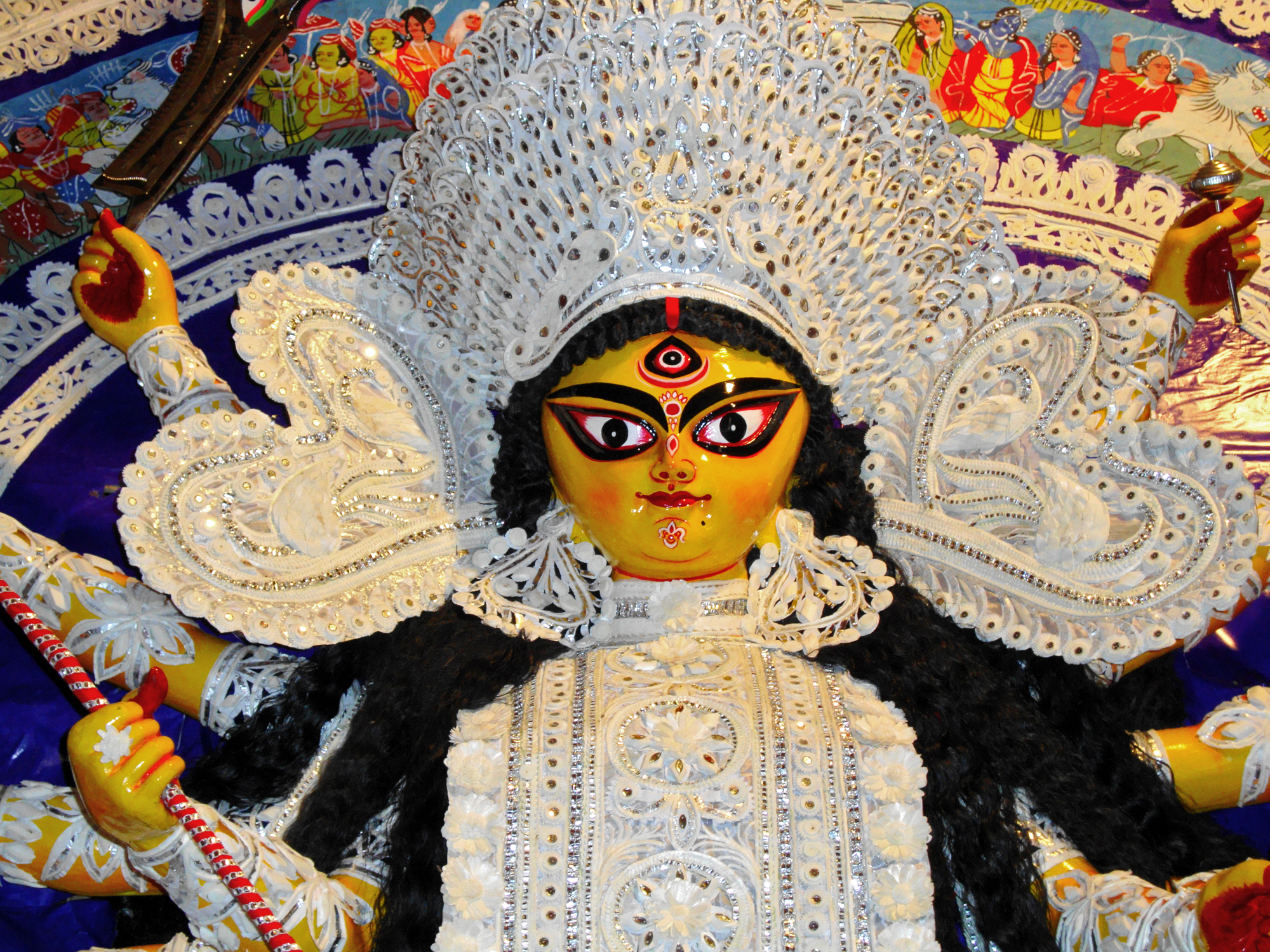 Durga puja at Burdwan